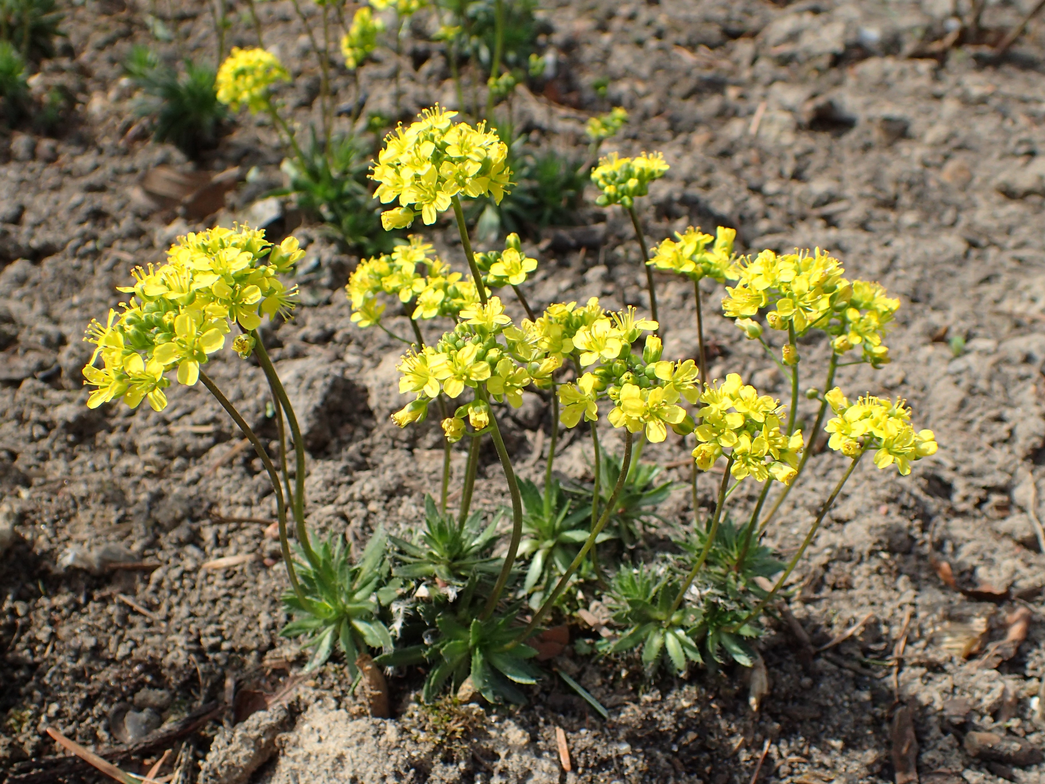 Draba lasiocarpa in Arboretum Rogow, Poland